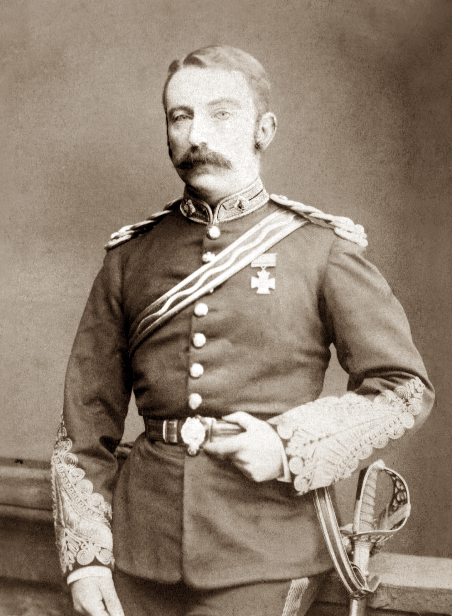 Lt.Col. John Rouse Merriott Chard VC (1847-1897), recipient of the Victoria Cross for valour at the battle of Rorke's Drift (South Africa, 1878).